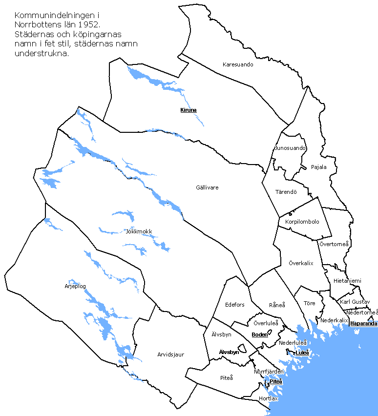 Municipalities of Norrbotten County 1952.